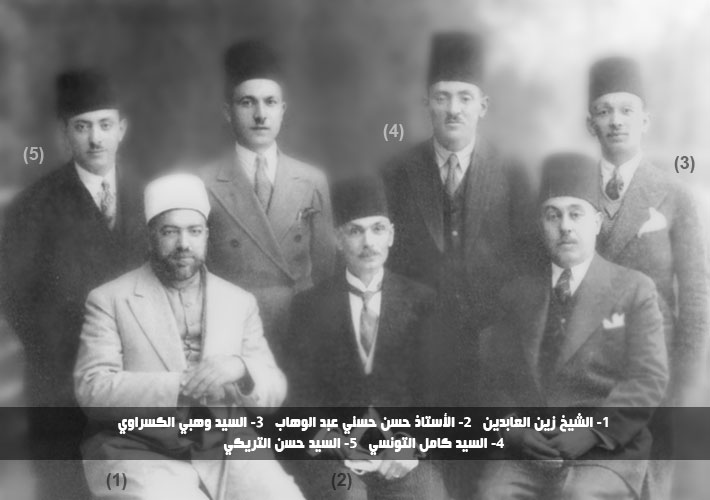 Tunisian scientists